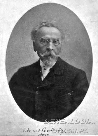 Edward Pawłowicz